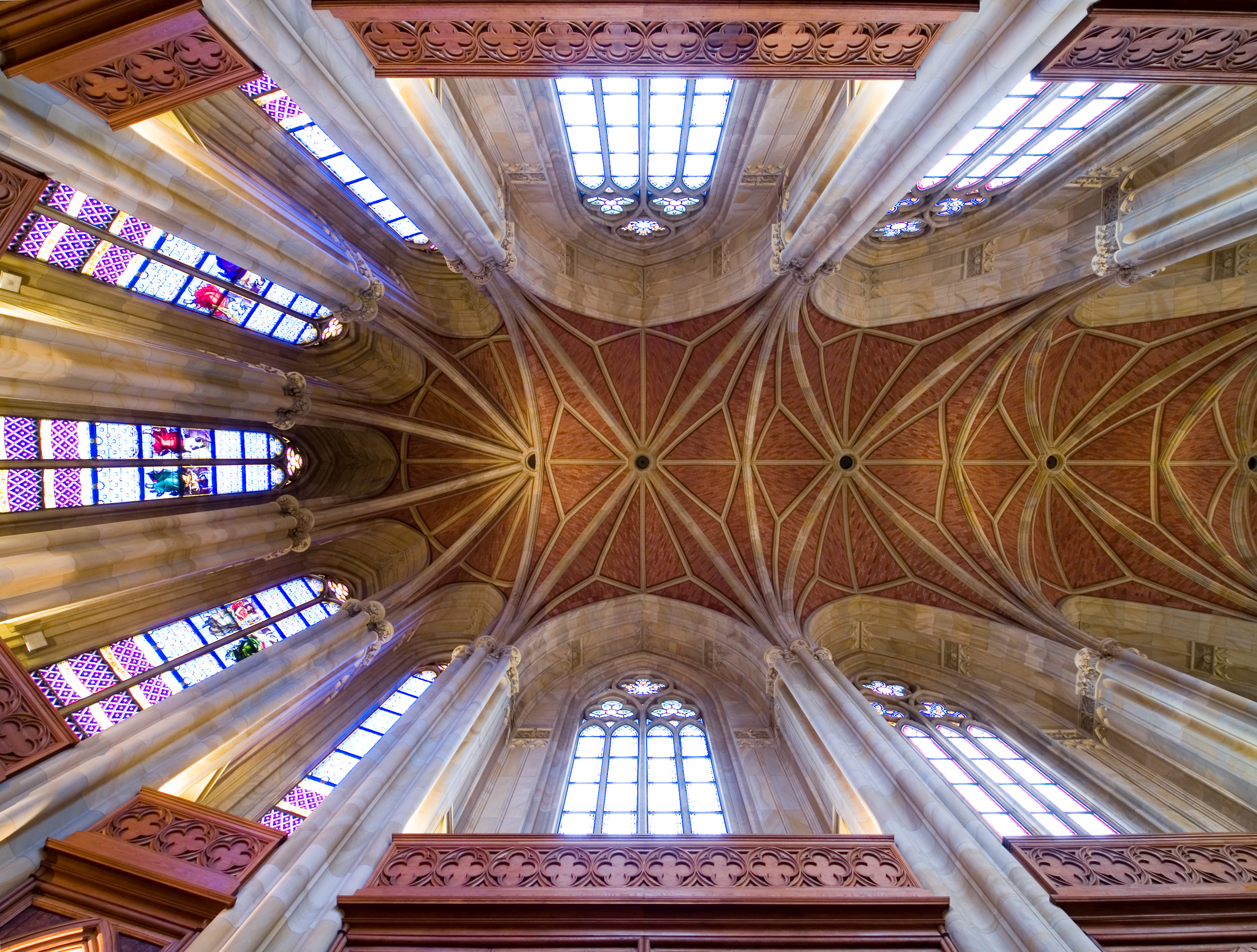 The vault of the Friedrichswerdersche Kirche in the city of Berlin, Germany